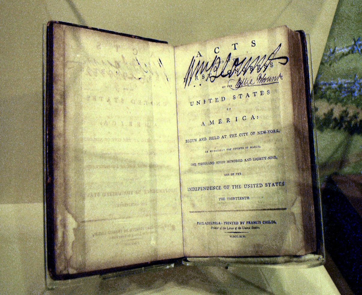 Copy of Acts Passed at the First Congress of the United States of America signed by Constitutional Convention delegate William Blount, on display at the East Tennessee History Center in Knoxville, Tennessee, United States.